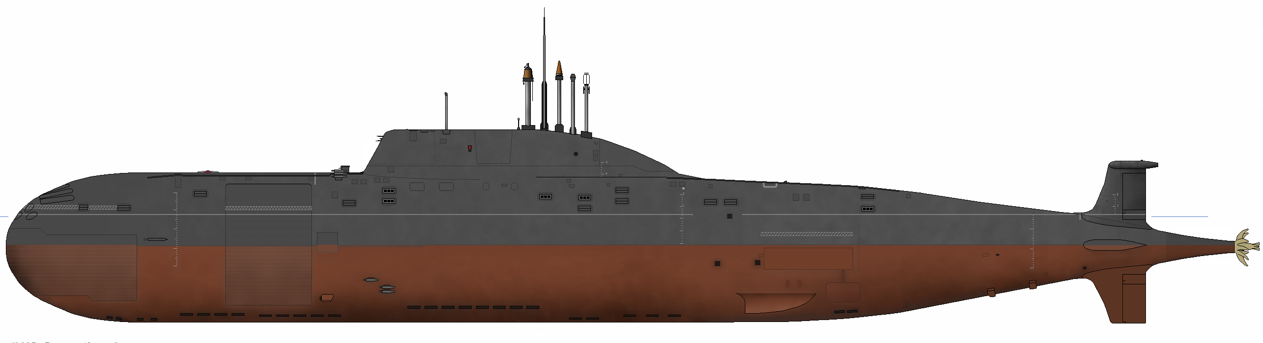 Drawing of the K335 boat of the russian Akula class submarines.